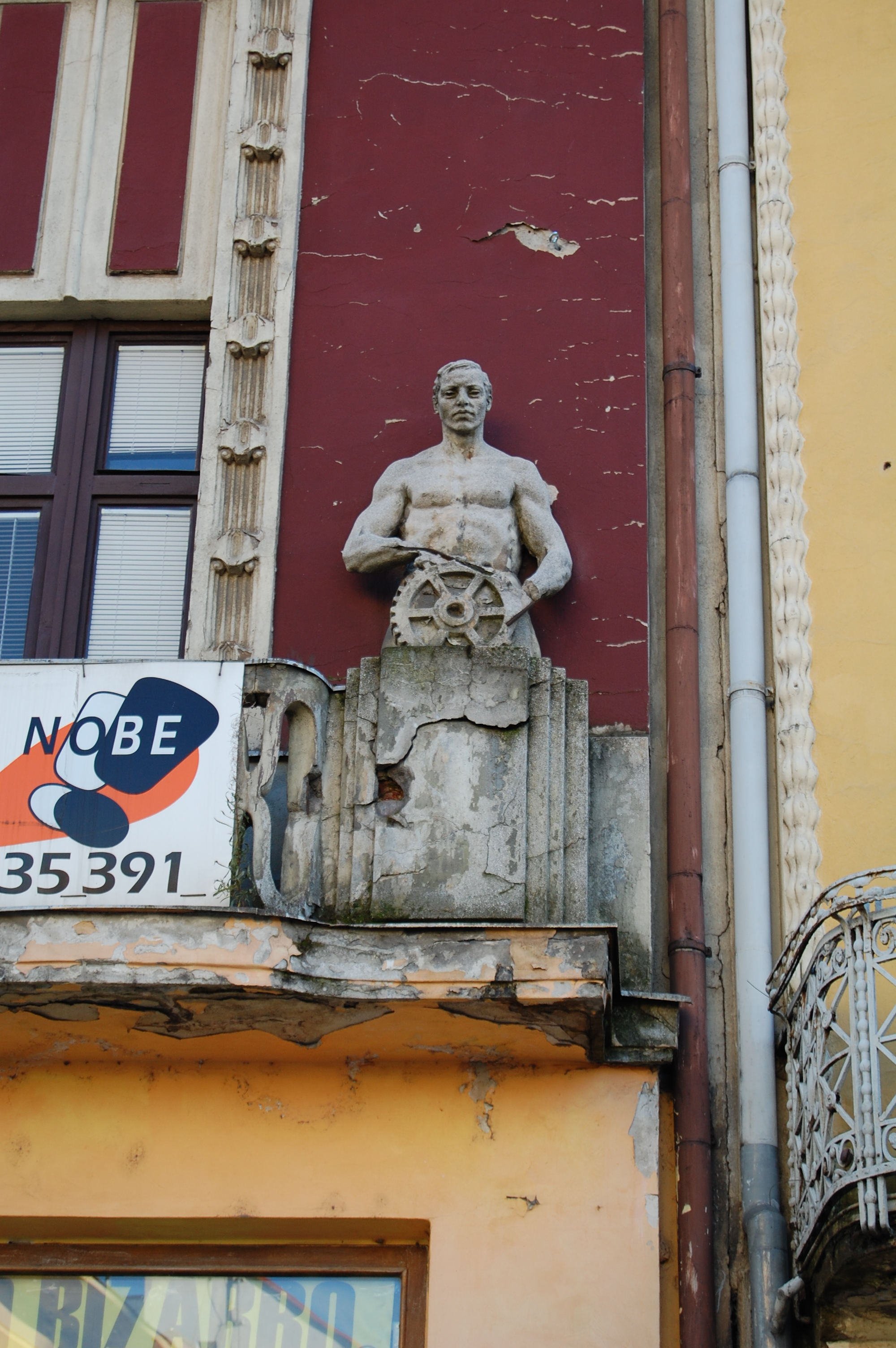 Statue on the building at Masaryk square in Ostrava, Czech republic.